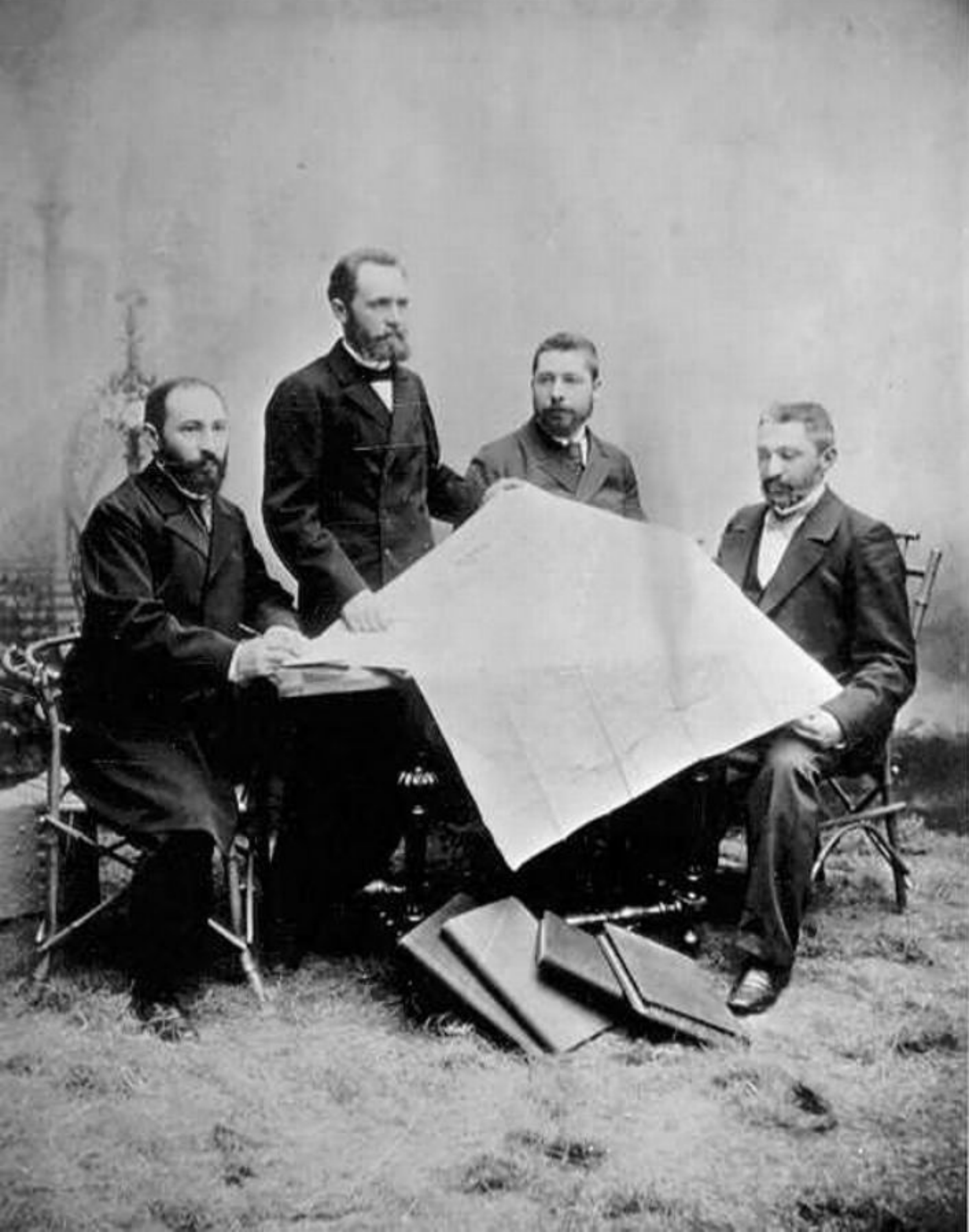 The founding of Rehovot, Eliezer Kaplan, Z. Gluskin, A. Z. Levin-Epstein and M. Cohen. Leaders of the Menuha V'Nahala Association in Warsaw who purchased lands in Eretz Yisrael. From right to left: Matityahu Cohen, A.Z. Levin-Epstein, Z. Gluskin and Eliezer Kaplan. The founding committee of Menucha v'Nachala (Rehovot), 1892. Standing in the middle: I. Glickson [Gluskin?], and to his left, Z. Levin-Epstein